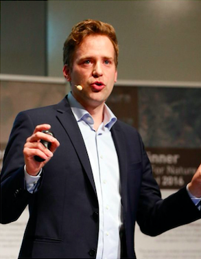 Wietse van der Werf at the Future for Nature Awards in 2016